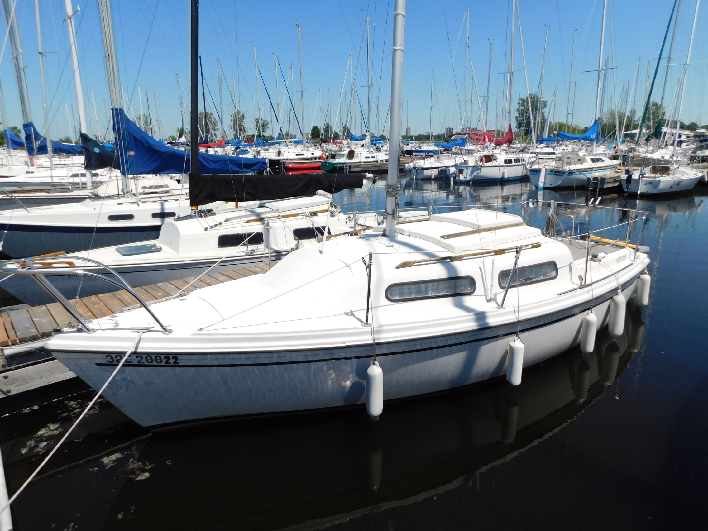 A Sirius 21 sailboat named Moorside.